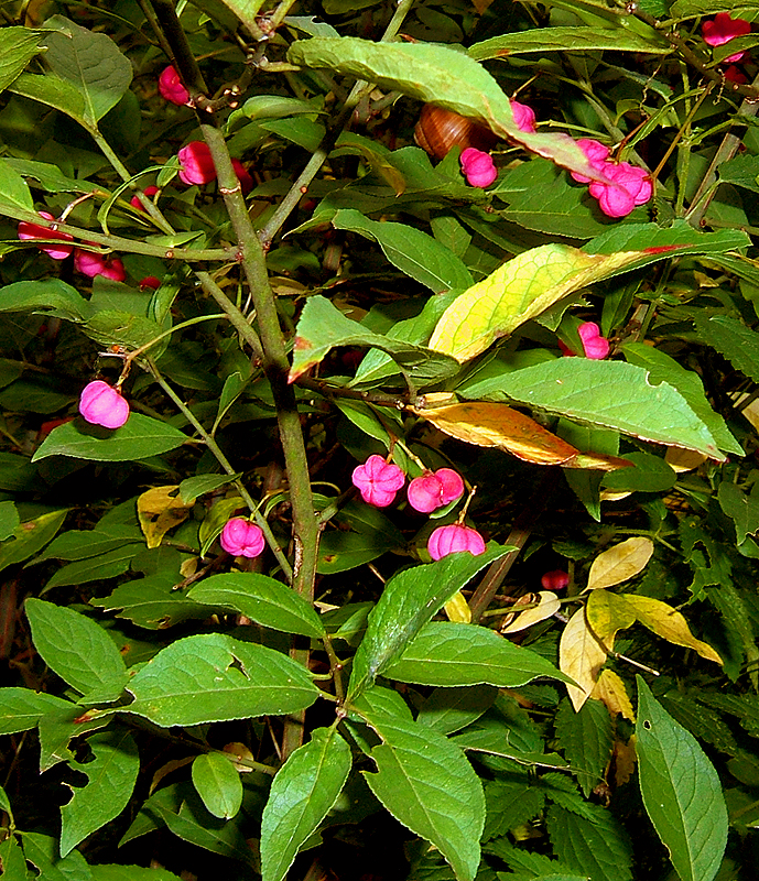 European Spindle